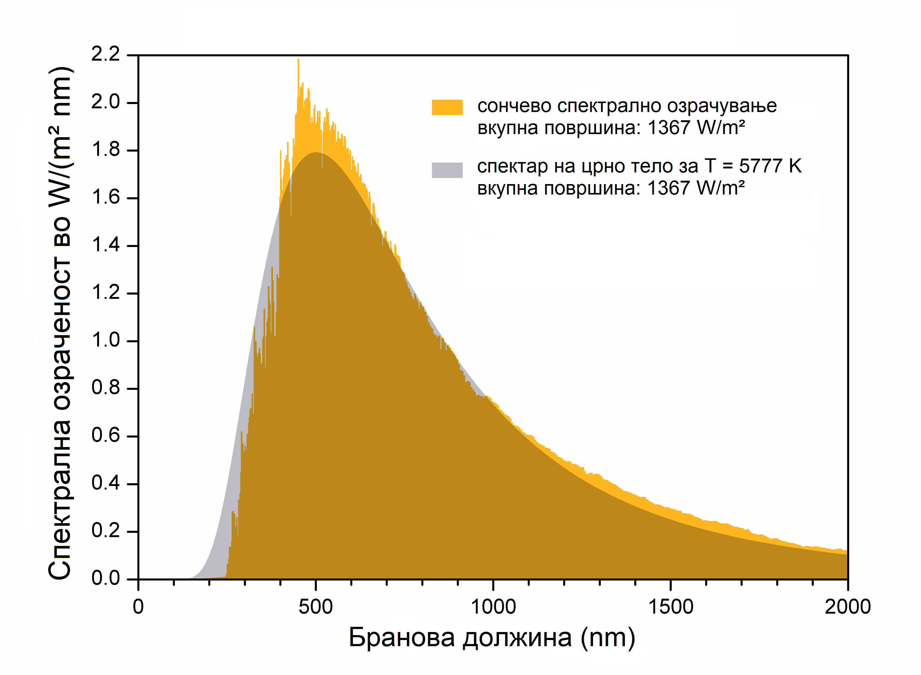 Blackbody temperature diagram in Macedonian.